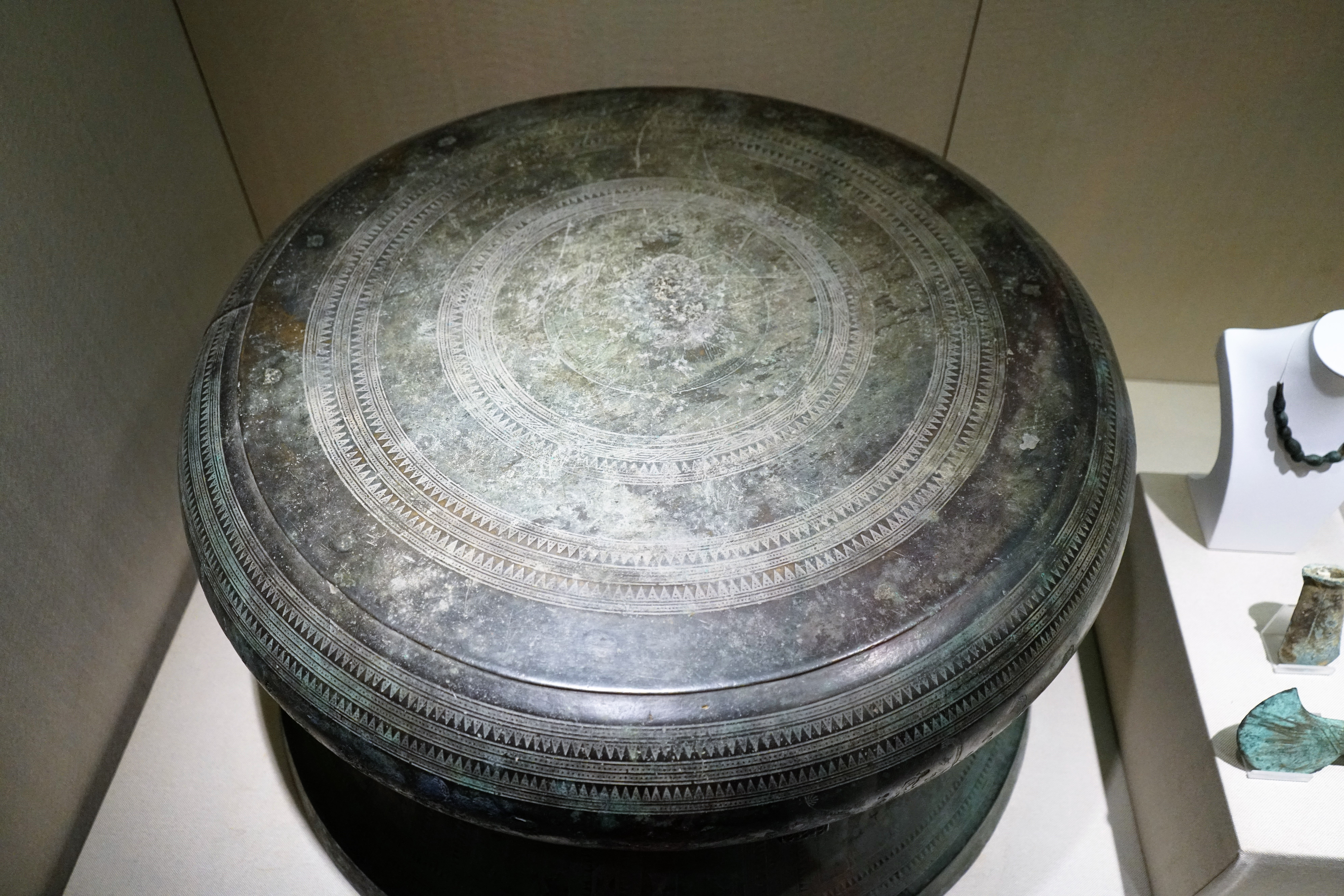 Bronze Drum. Unearthed at Guangnan